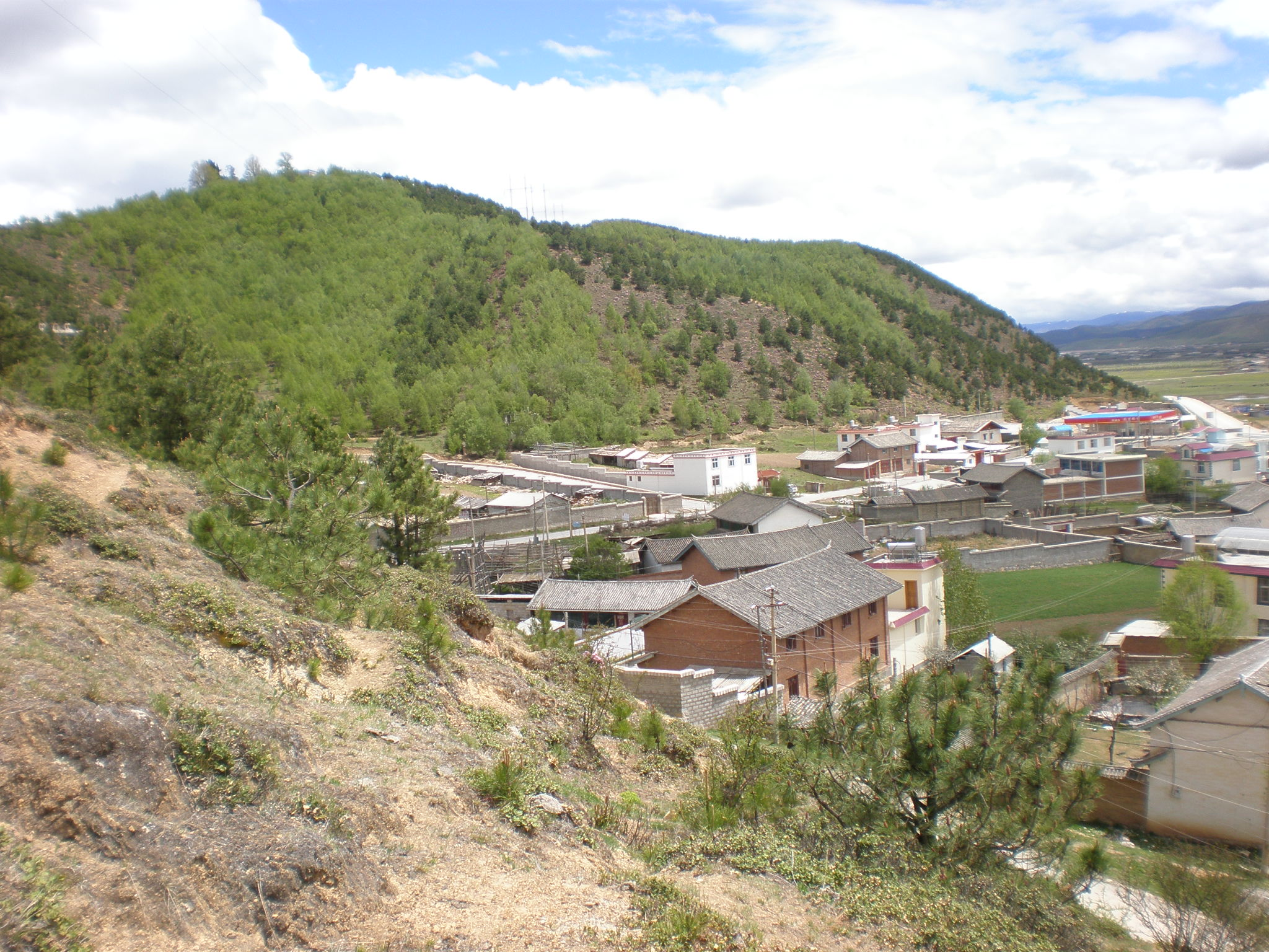 A hillside on the western side of Dawa Road in Shangri-La, Yunnan.